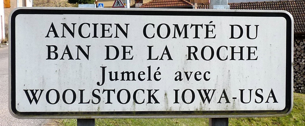 Twinning between Woolstock (Iowa) and 8 villages belonging to former county Ban de la Roche